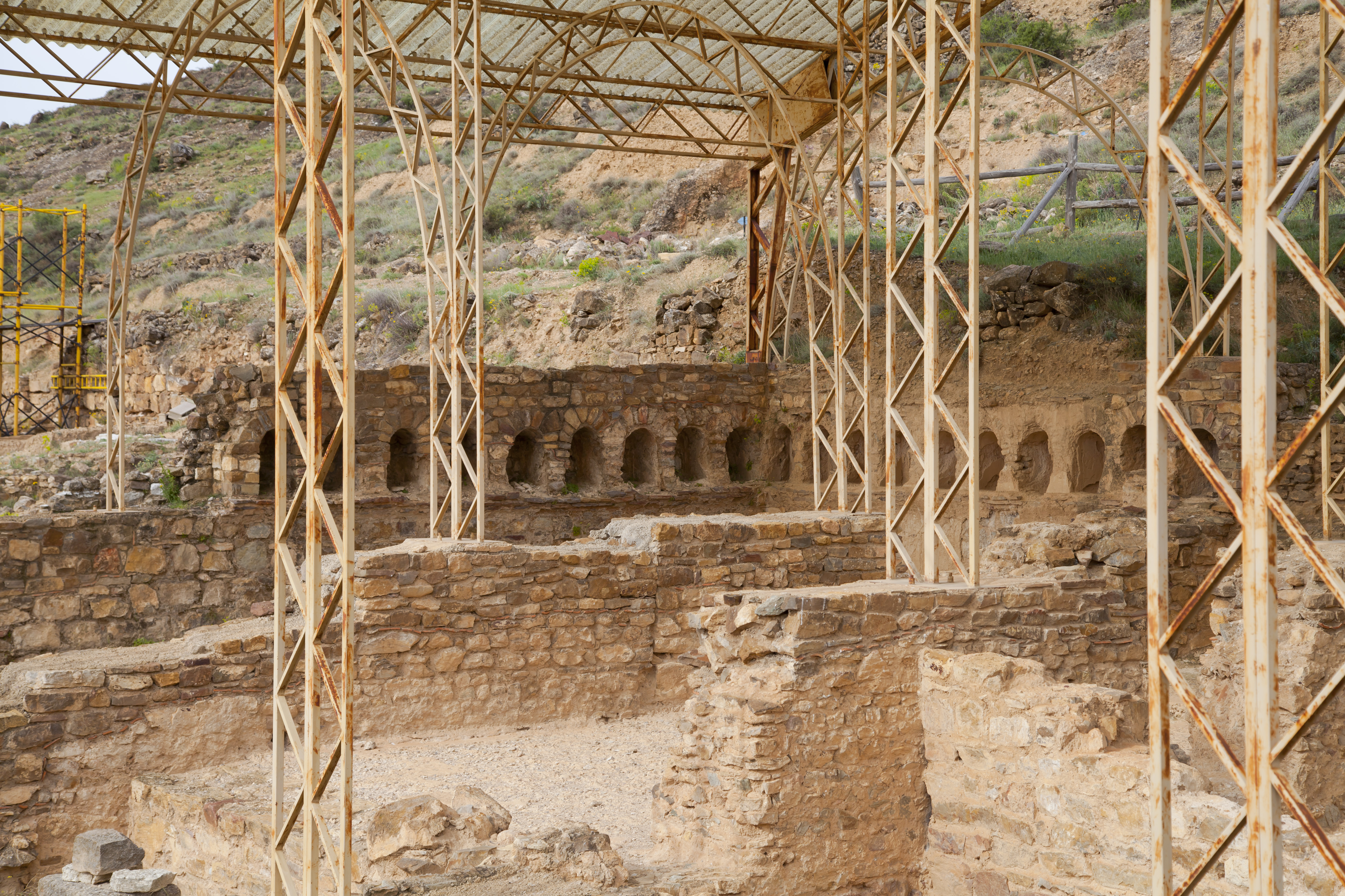 Ruins of the ancient roman city of Bilbilis, Calatayud, Spain